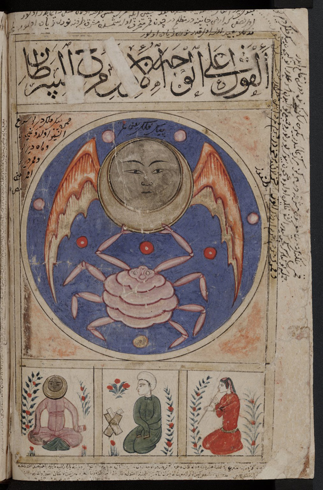 Sign of the zodiac: Cancer, or al-Saraṭān. Page from a manuscript known as Kitab al-bulhan or "Book of Wonders" held at the Bodelian Library. Shelfmark: MS. Bodl. Or. 133